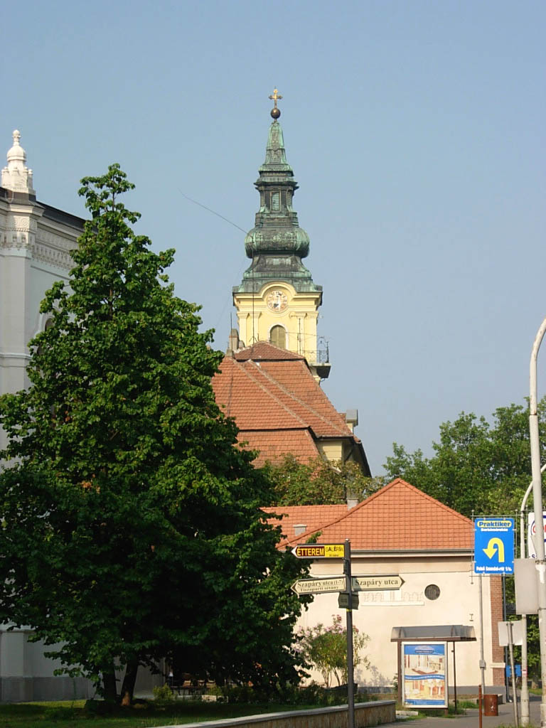 The Catholic Church in Szolnok, Hungary.